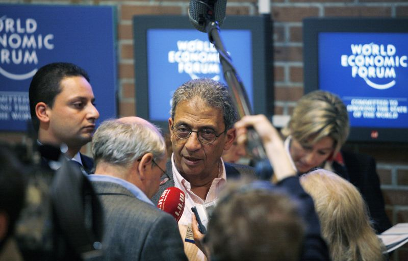 DAVOS/SWITZERLAND, 24JAN07 - Amre Moussa, Secretary-General, League of the Arab States, talks to Journalists at the Annual Meeting 2007 of the World Economic Forum in Davos, Switzerland, January 24, 2007. Copyright by World Economic Forum by Monika Flueckiger